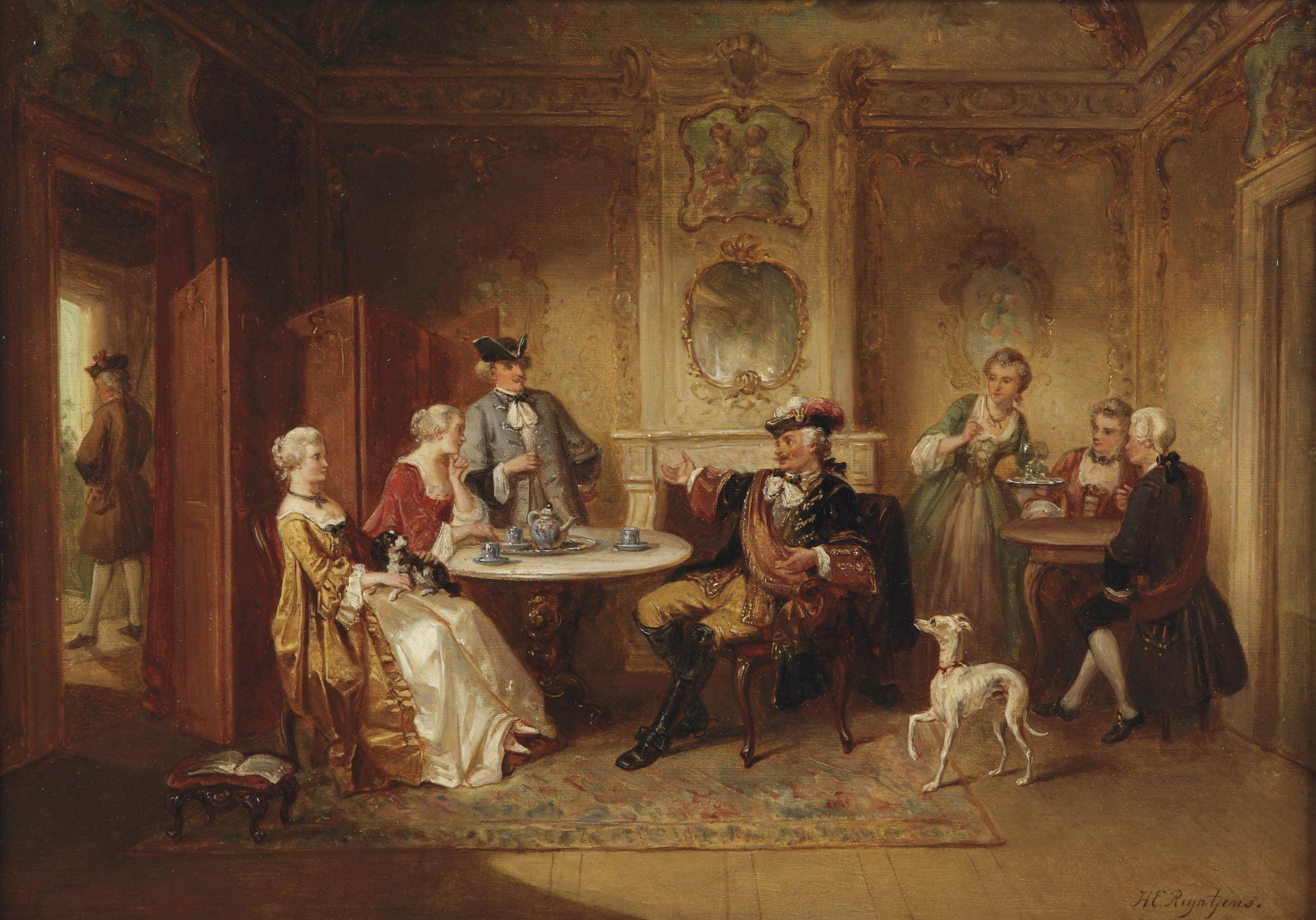 Listening to merry tales